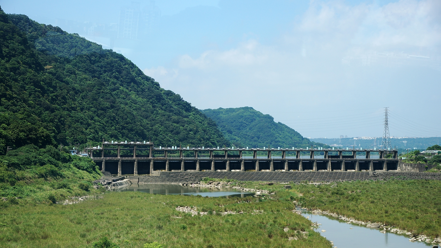 Yuan-Shan weir, at Da-Han river, New Taipei, Taiwan.中文（台灣）: 鳶山堰，位於台灣新北市三峽區/鶯歌區大漢溪。